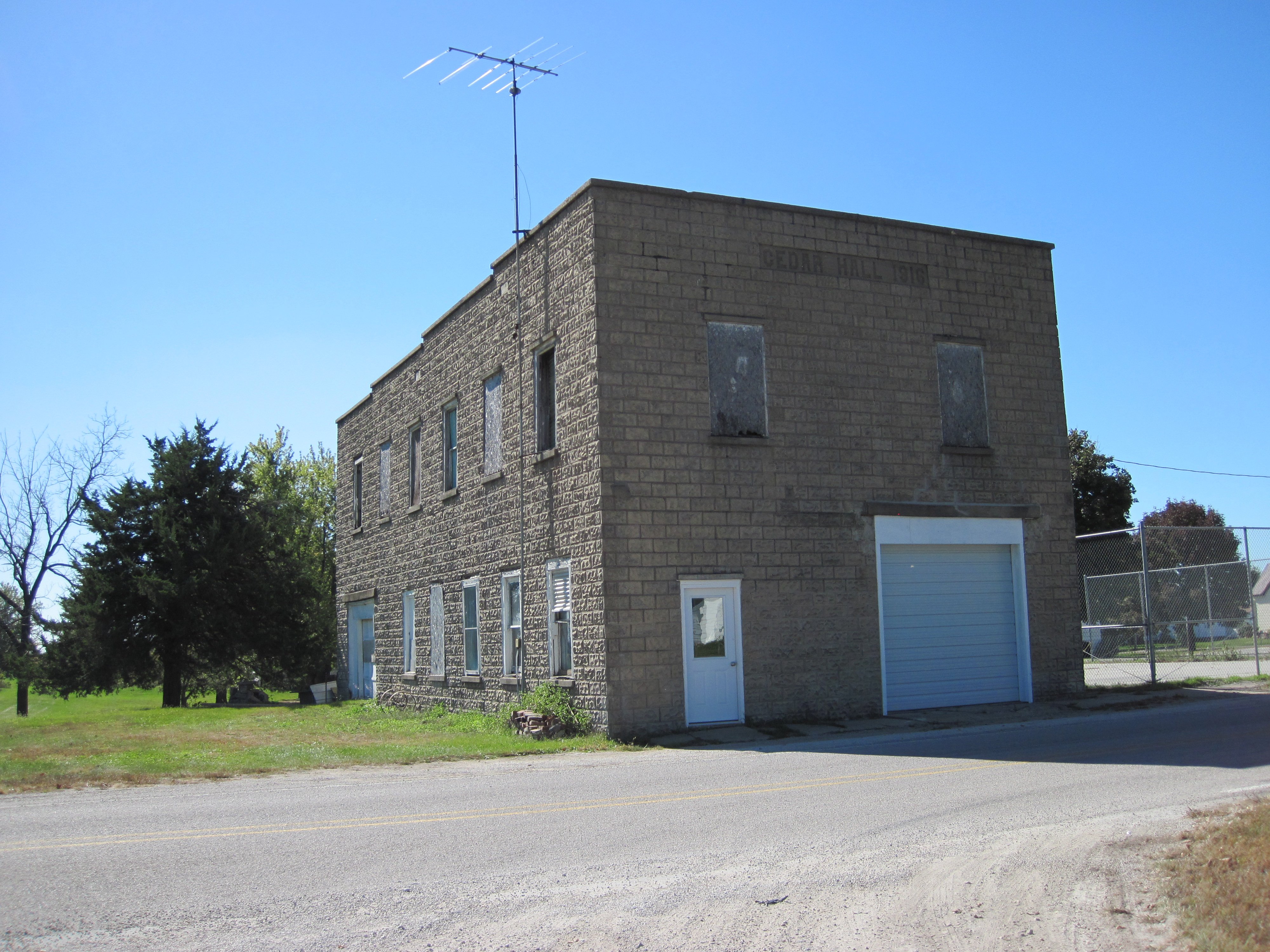 Cedar